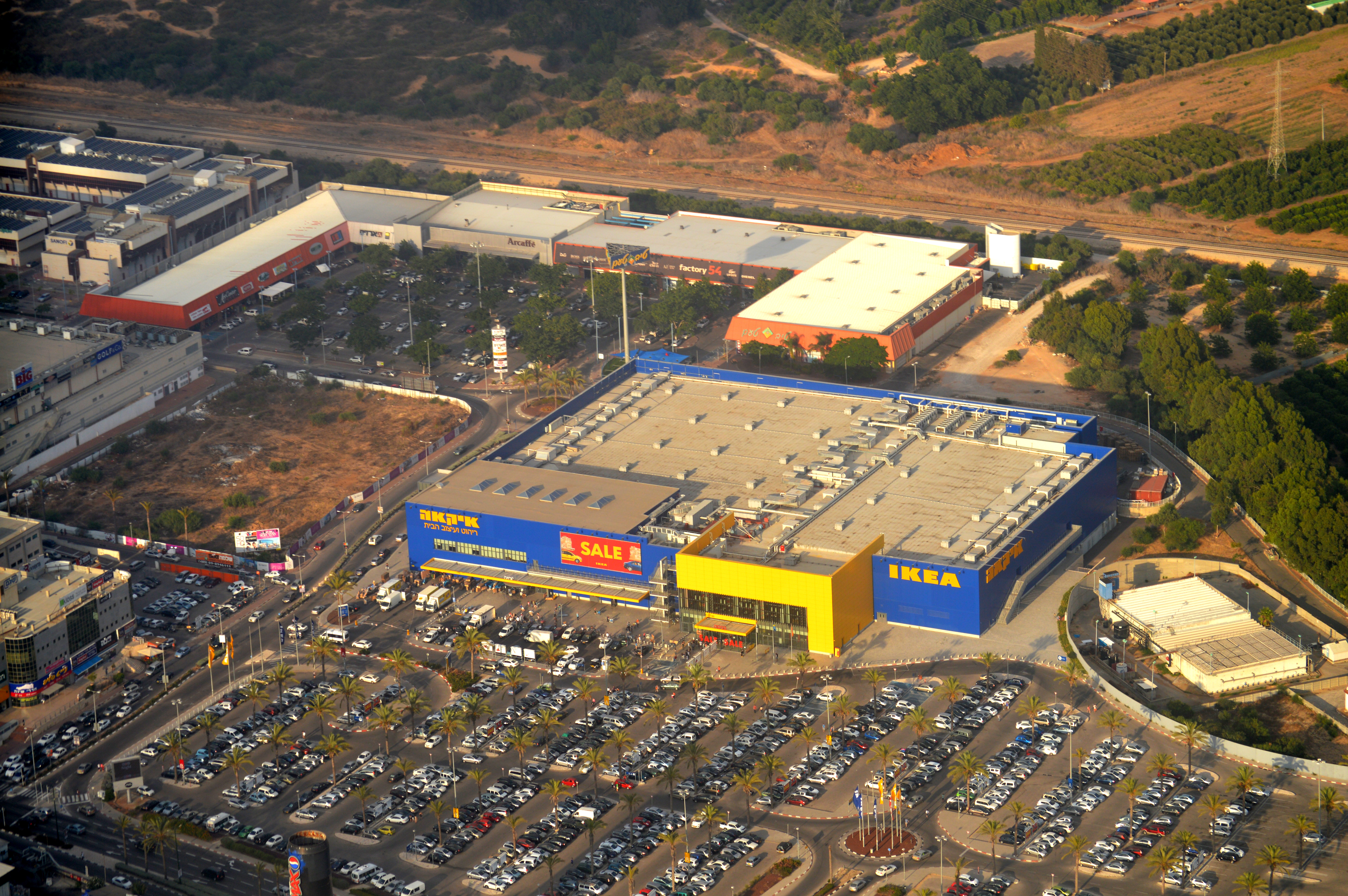 Aerial View of Sharon plain, Israel